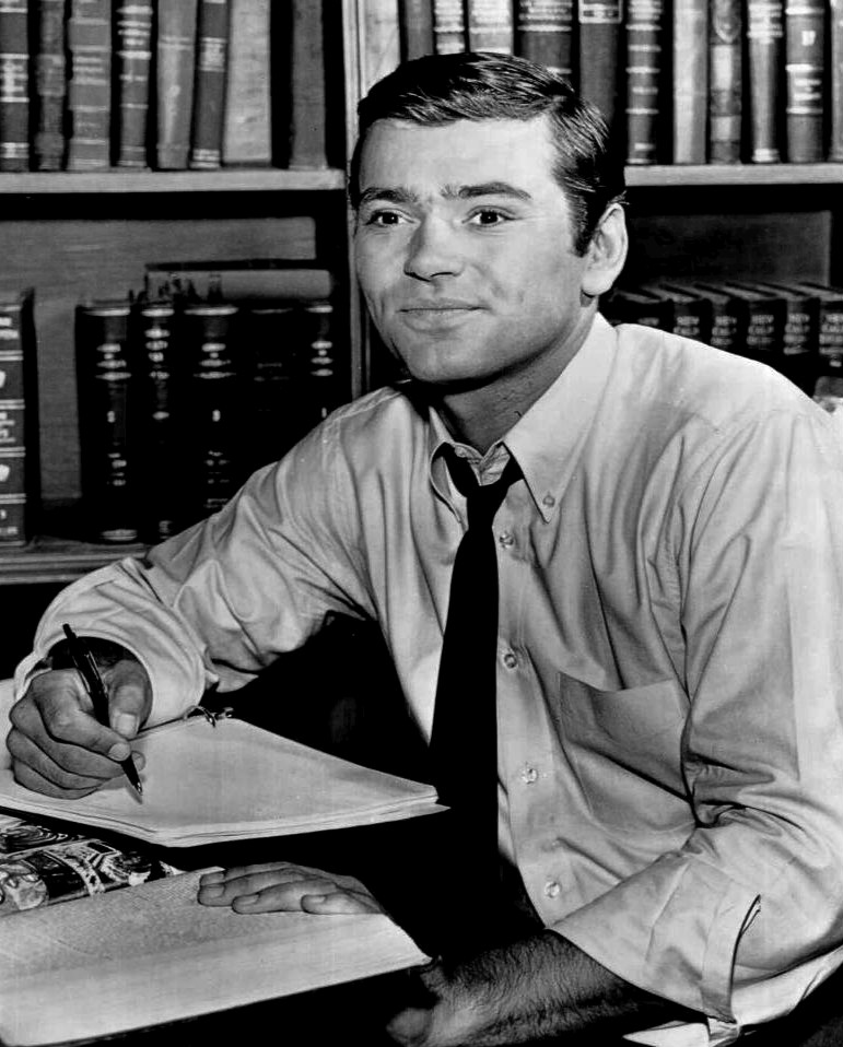 Photo of Peter Duel (AKA Deuel) as Gidget's brother in law, John Cooper, from the short-lived television program Gidget.